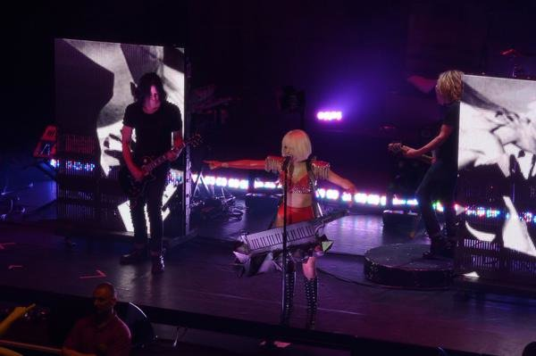 Nico on stage with Lady Gaga on the Fame Ball tour